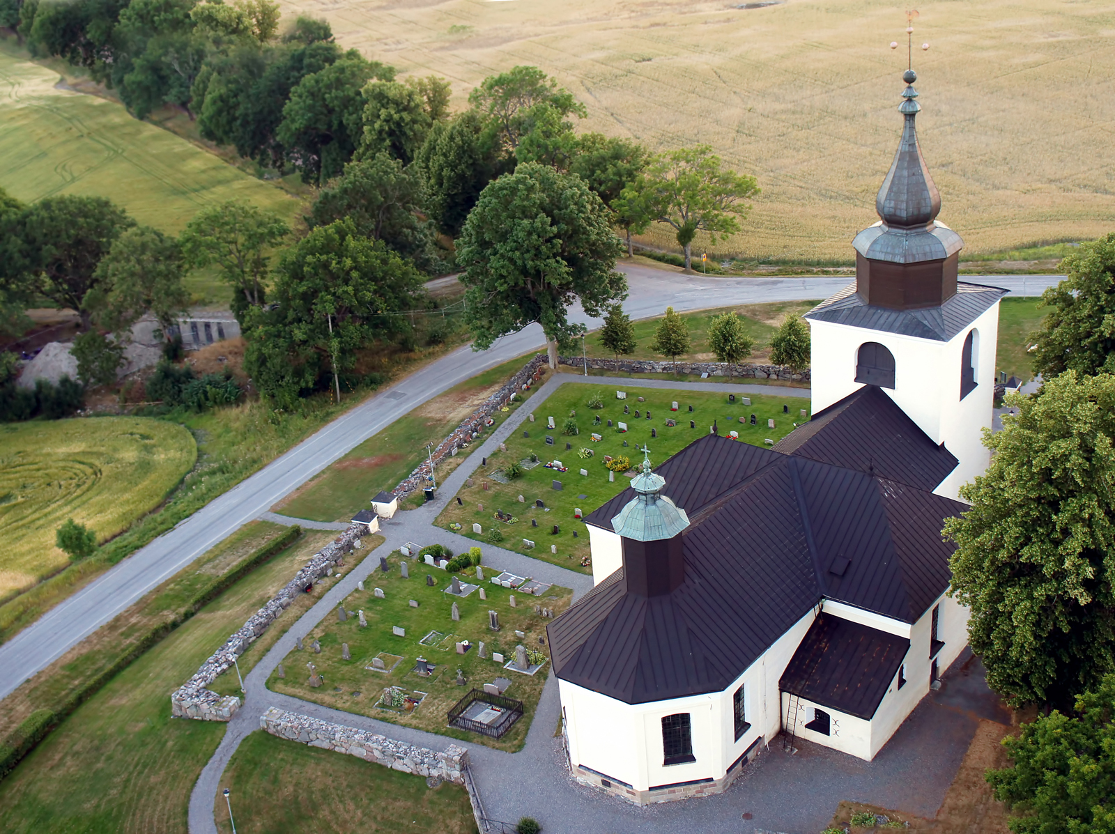 Östra Ryds kyrka